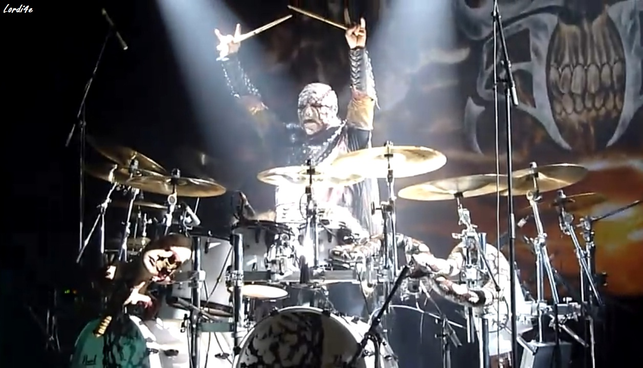 Lordi´s drummer Otus live in Paris 28. 11. 2010